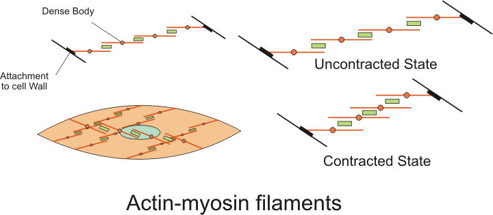 Diagram showing Actin-Myosin filaments in Smooth muscle. The actin fibers attach to the cell wall and to dense bodies in the cytoplasm. When activated they slide over the myosin bundles causing shortening of the cell walls